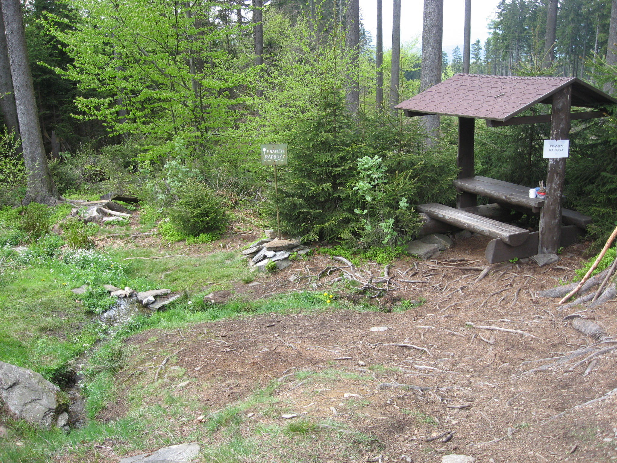 Spring of Radbuza river, Czech Republic